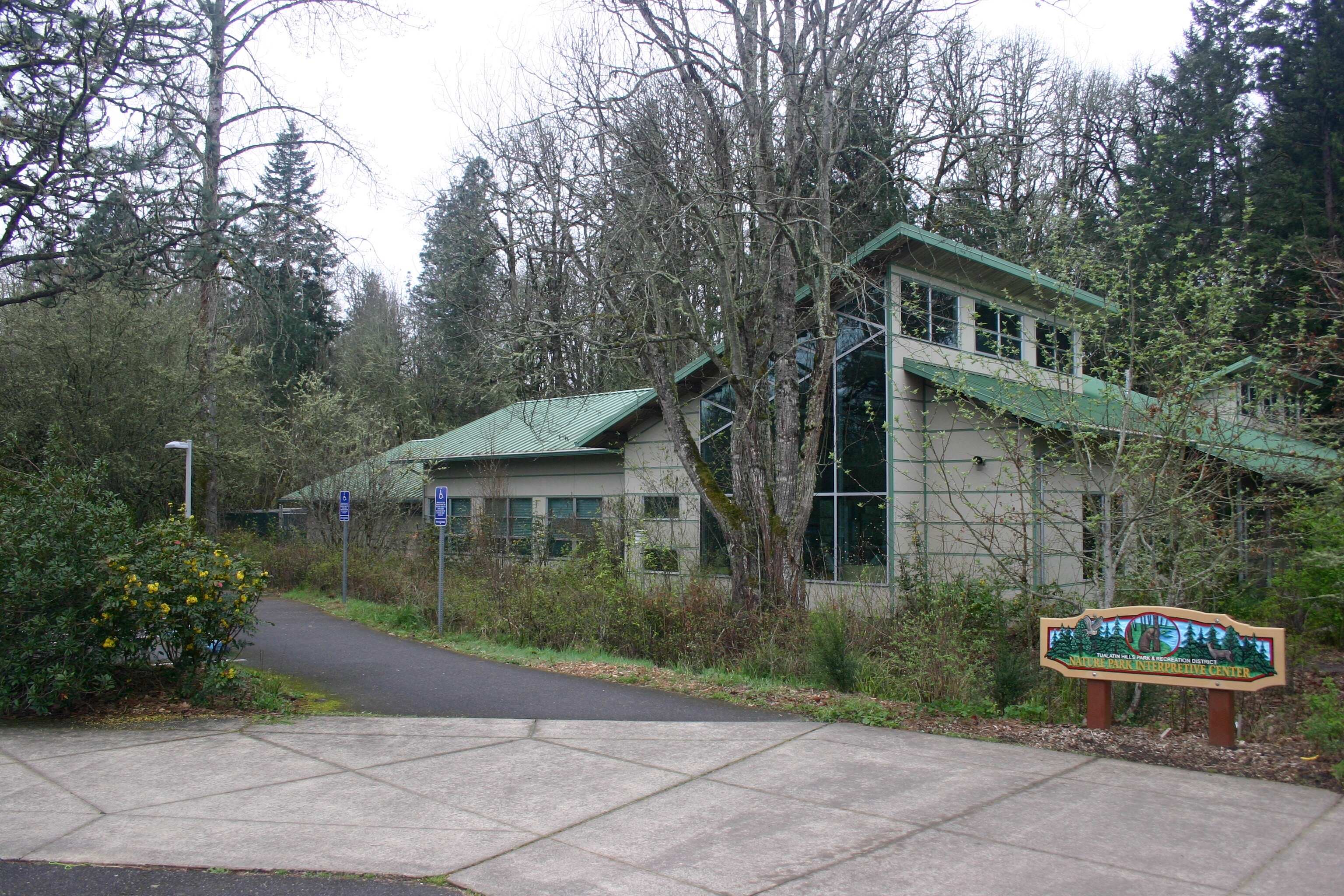 Tualatin Hills Nature Reserve-76